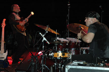 Hass with Scofielfd